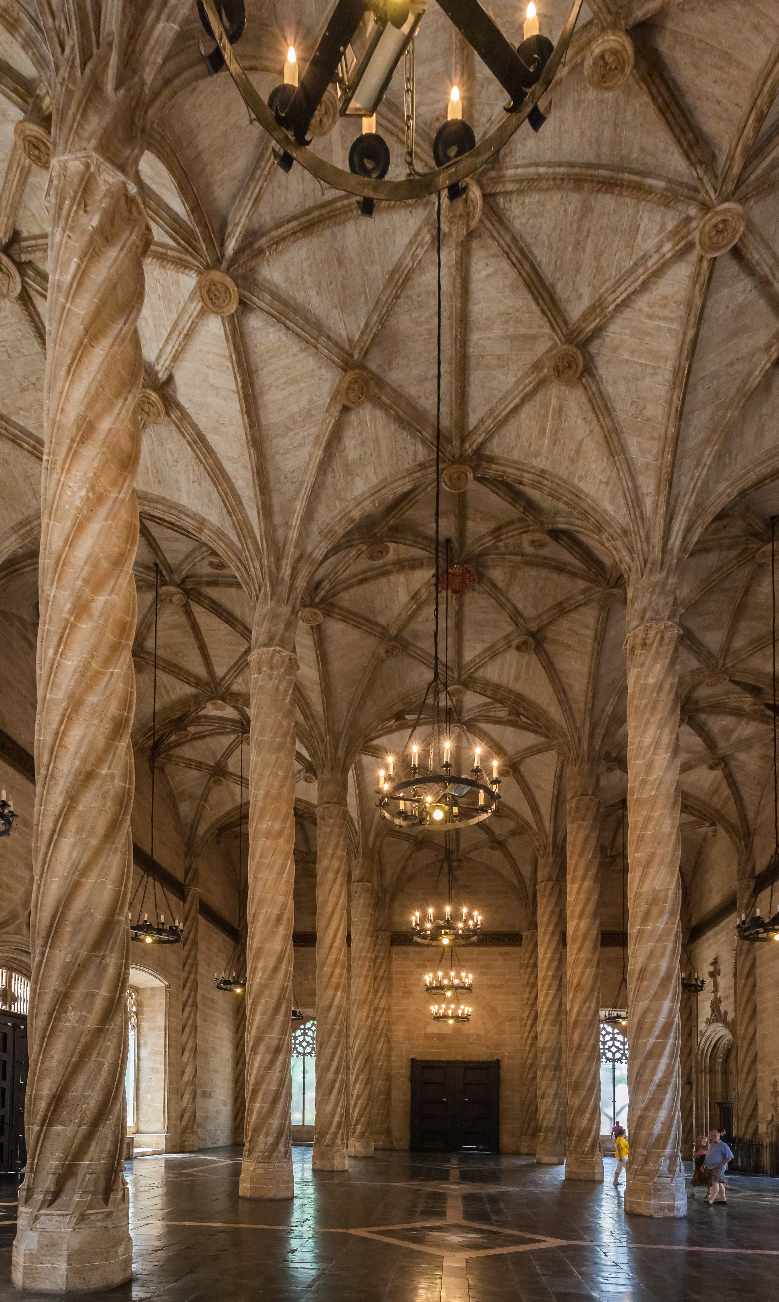 Columnar Hall, Silk Market, Valencia, Spain